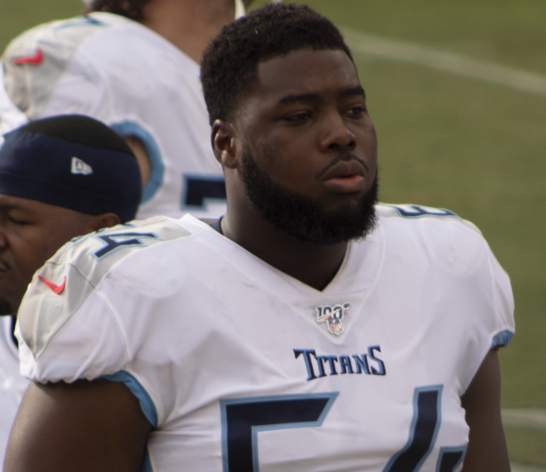 Davis with the Titans on December 8, 2019